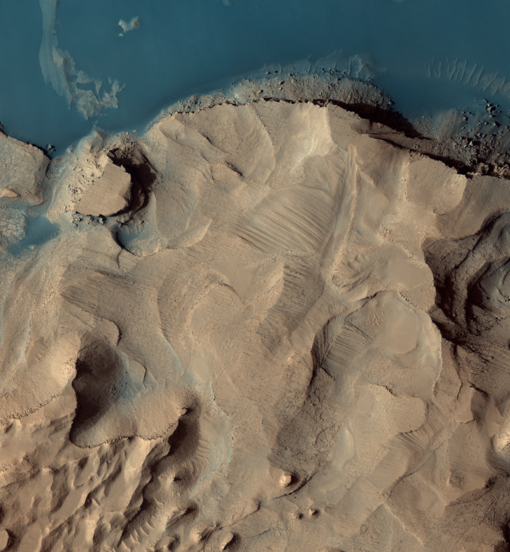 Blocky rocks in Danielson crater photographed by the HiRISE instrument aboard Mars Reconnaissance Orbiter.